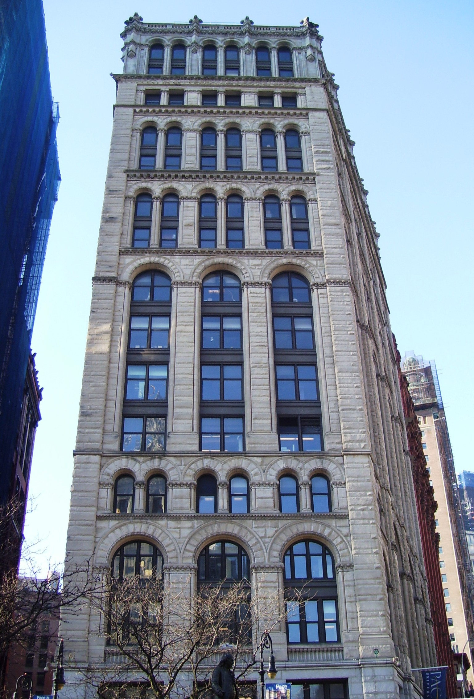 The New York Times Building at 41 Park Row at Spruce Street in the Financial District of Manhattan, New York City was built in 1888-89 and was designed by George B. Post in the Romanesque Revival style to be the headquarters of the New York Times, replacing another building on the same site. The new building was constructed around the existing press room so there would be no interruption in publication of the newspaper. The building was enlarged in 1903-1905 by Robert Maynicke, adding four stories, when the Times moved uptown and sold it. It is now owned by Pace University. (Source: Guide to NYC Landmarks (4th ed.))